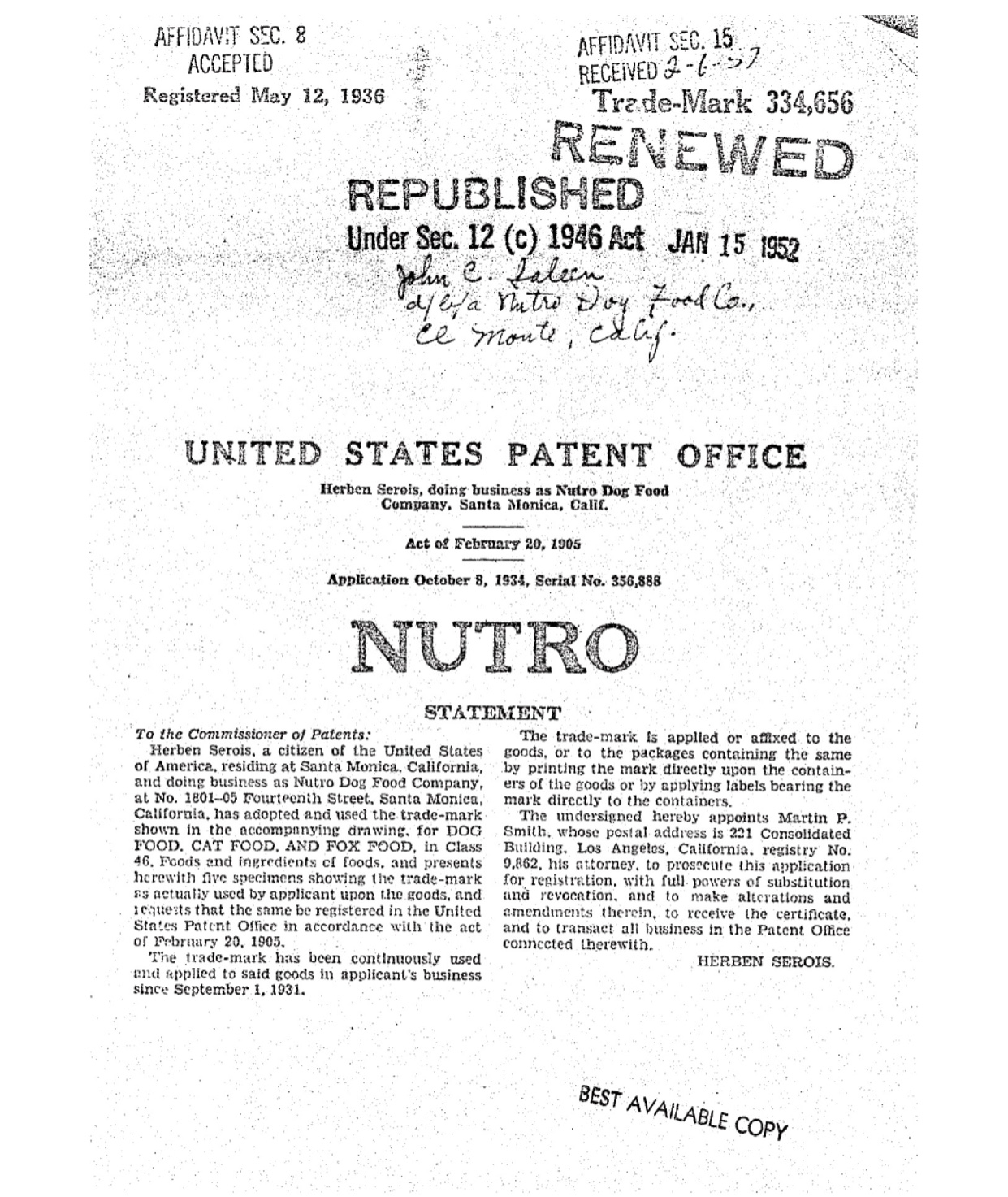 This is a copy of the United States Patent Office Trademark Approval, which is public information.